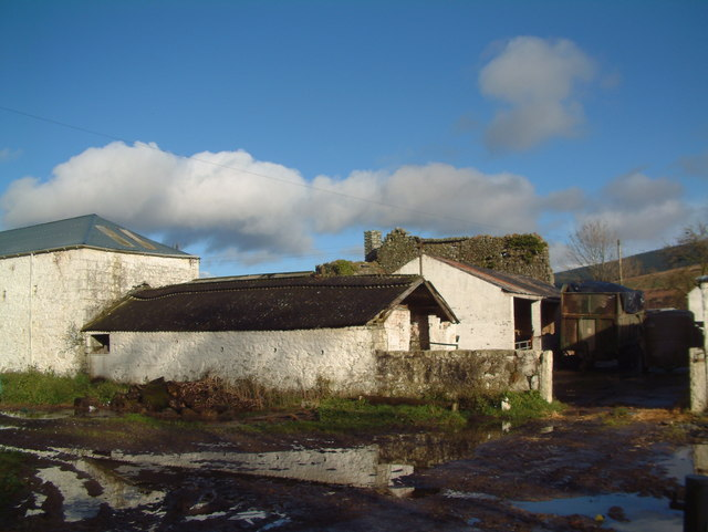 Auchenskeoch (Castle farm) and Winter glaur.